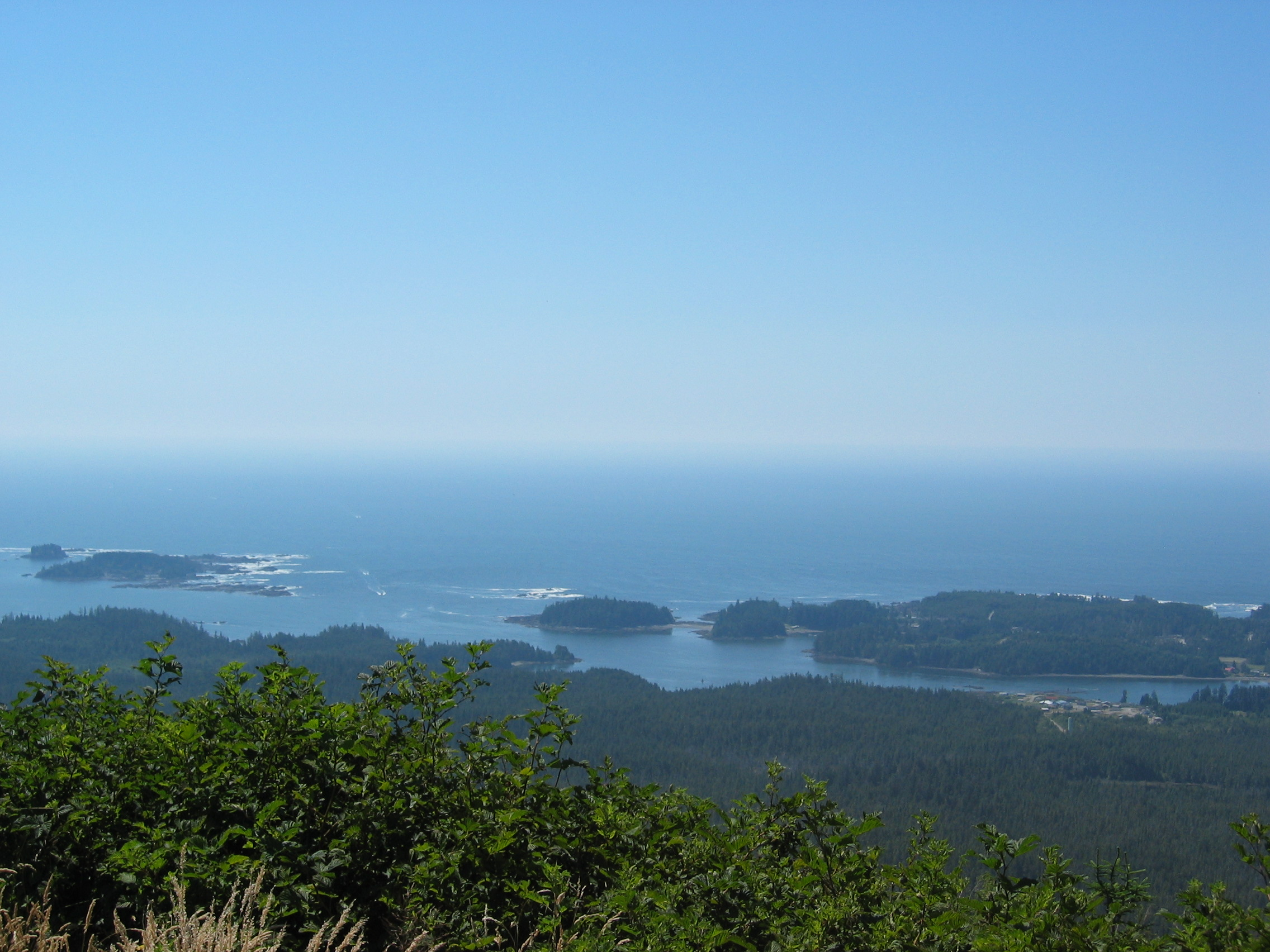 View of tip of Ucluelet Peninsula and Francis Island from mountain to the northeast.